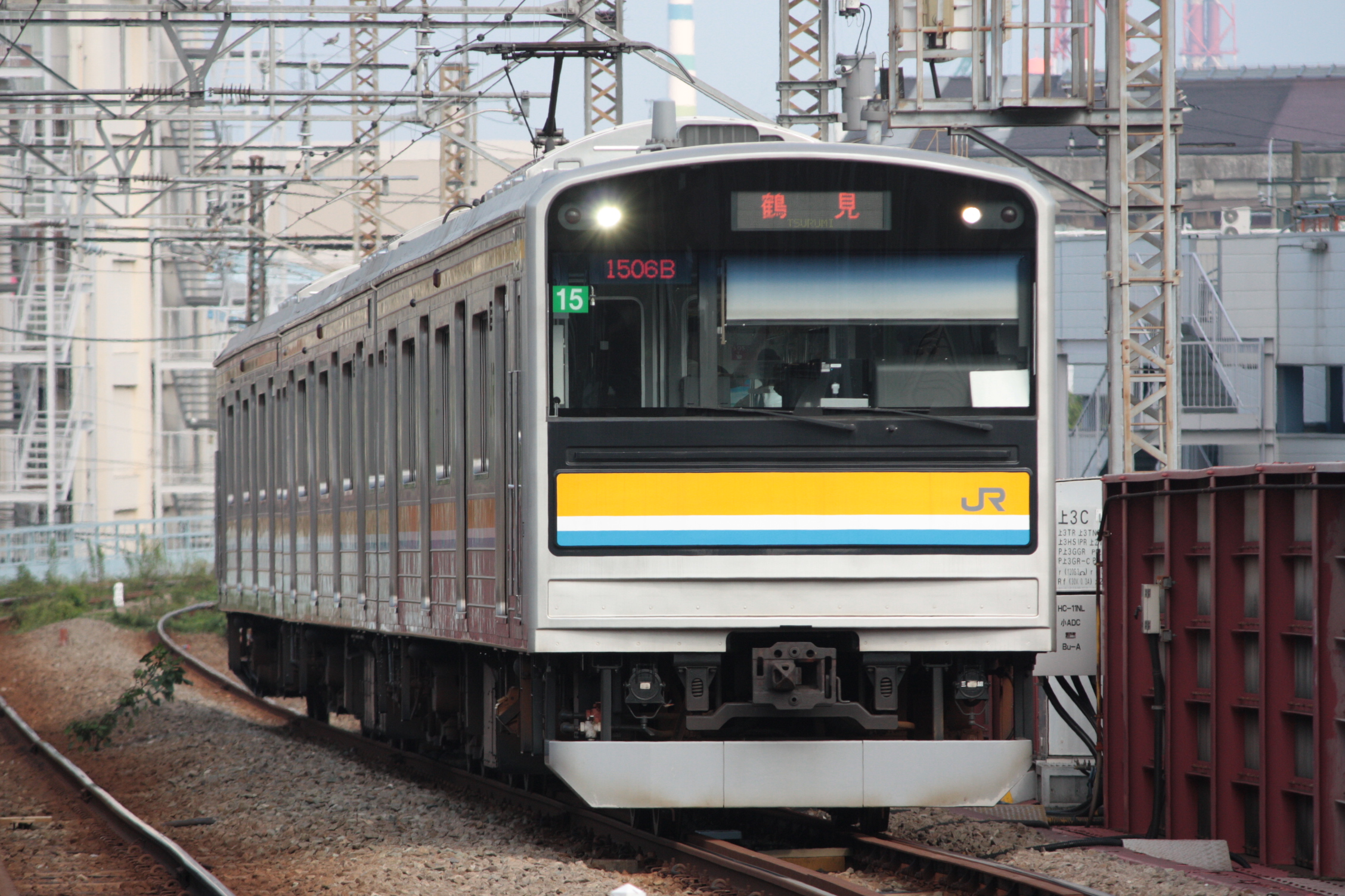 A JR East 205-1100 series EMU approaching Kokudo Station on the Tsurumi Line